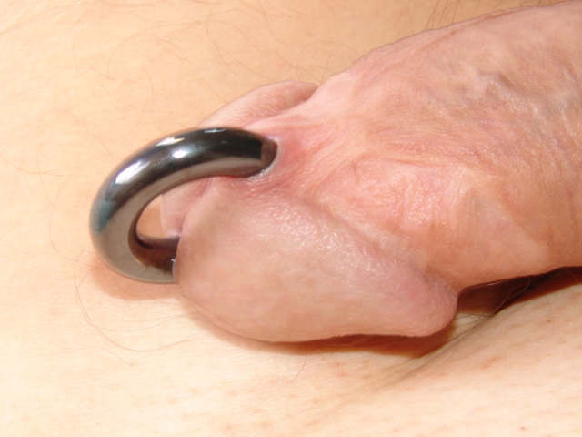 Prince Albert Piercing : stretched to 4G, Niobium Segment Ring